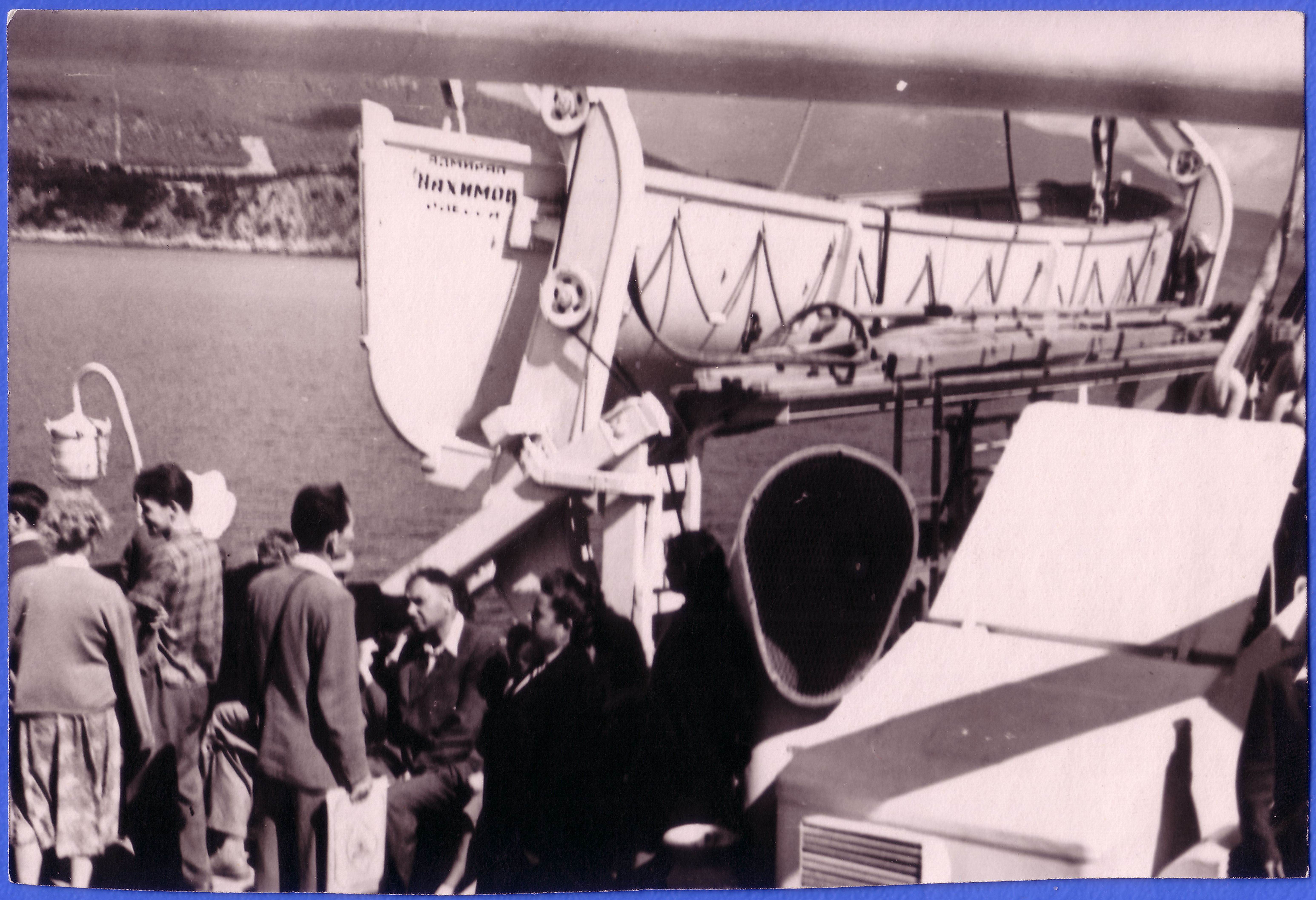 Admiral Nakhimov liner on the Black Sea cruise. 1957.